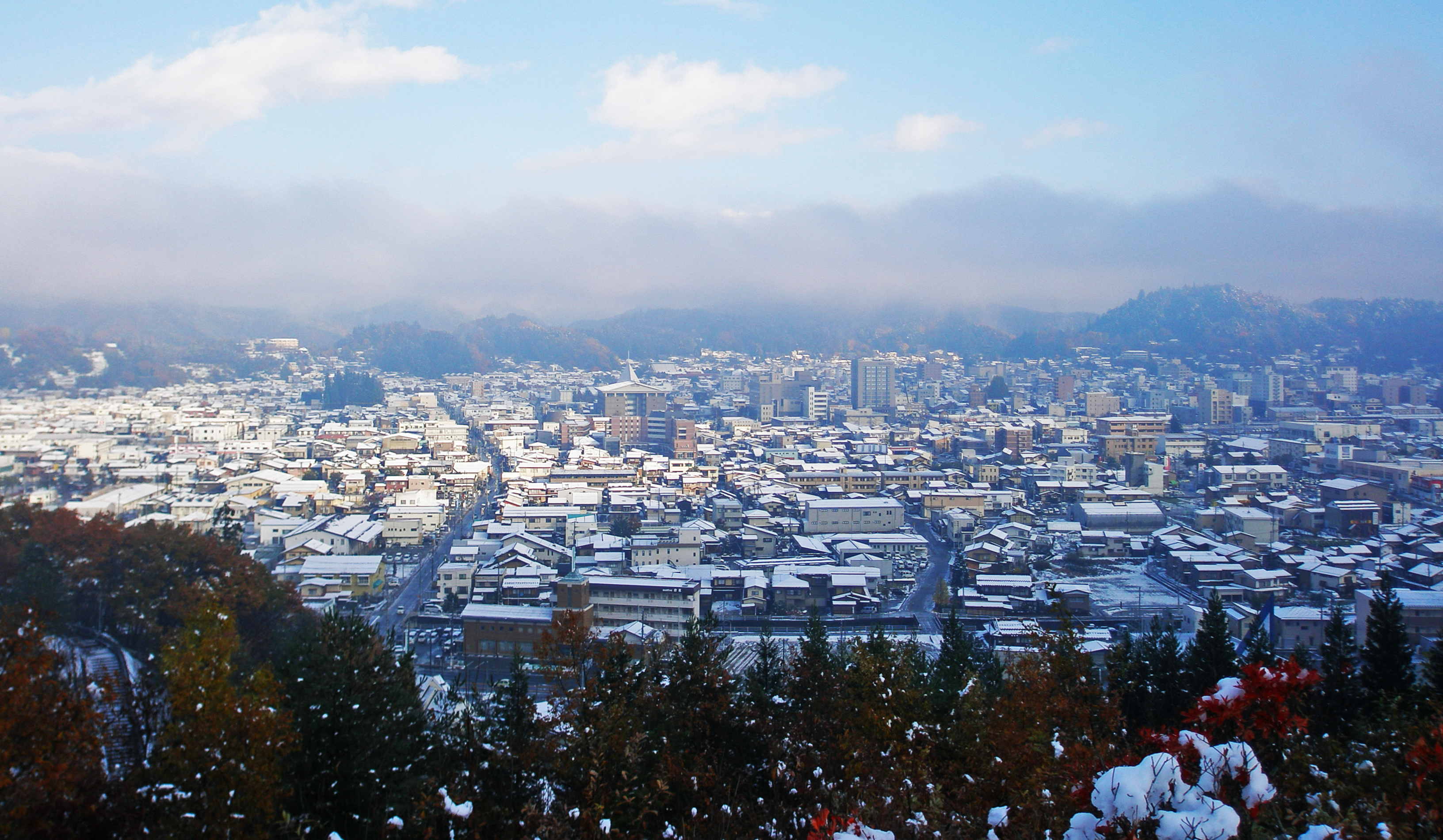 Overlooking Takayama (North-East)